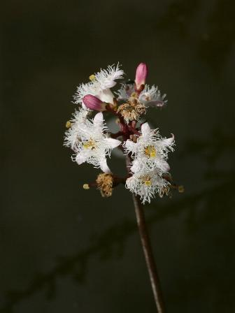 Menyanthes trifoliata: Flowers.